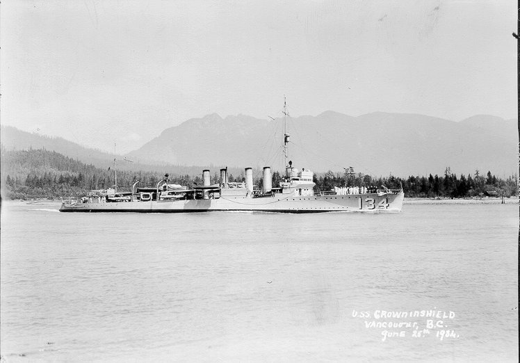 Wickes class destroyer USS Crowninshield (DD-134). Transferred to Britain as HMS Chelsea (I35) in 1940, and to USSR as Derzkiy in 1944.